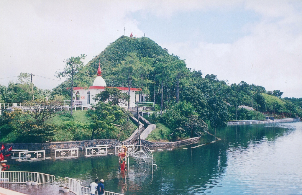 A view of the 'Ganga Talao' Hindu temple at Grand Bassin in Mauritius. Set in a U shaped valley, the temple comprises of several shrines, including one atop a hill which you can see here. Amazingly, entry to most of these shrines is by wading through ankle to knee deep water, a feature I found quite irritating. An alternative path was sometimes (though not always) available. The lake is actually the dismembered rim of an extinct volcano. The typically round crater shape has been obliterated completely by the elements. (Mauritius, Mar. 2005) (Loss of colour and quality due to scan from print: photo was taken on 35mm film).